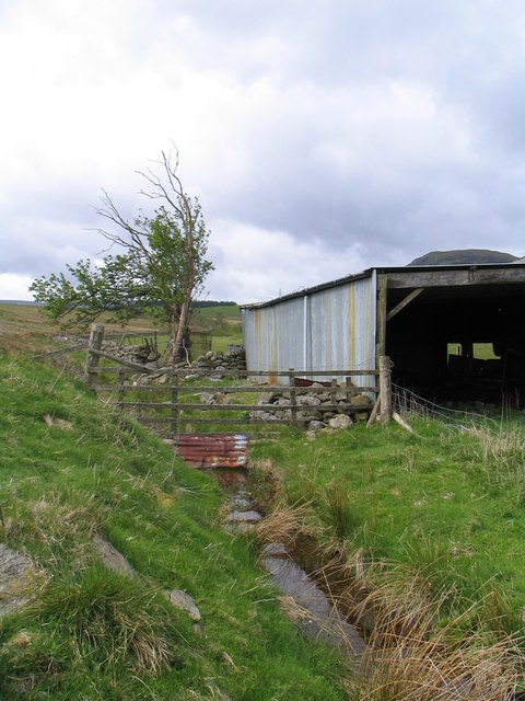 Old cattle shed by Dalreoch Disused shed by Dalreoch farm house. Adjacent small ditch/burn draining off hillside. Area still used for rough cattle grazing and excellent area for breeding curlew and lapwing.